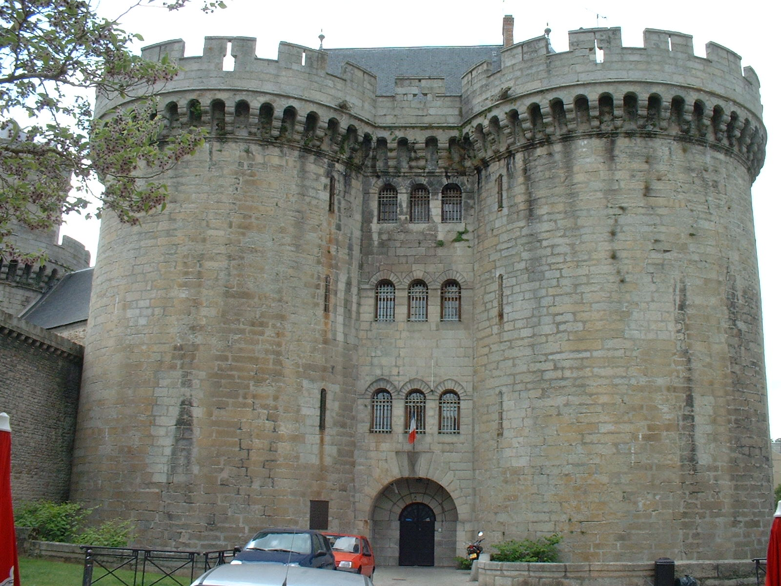 Alençon (Orne, France), le Château des Ducs.